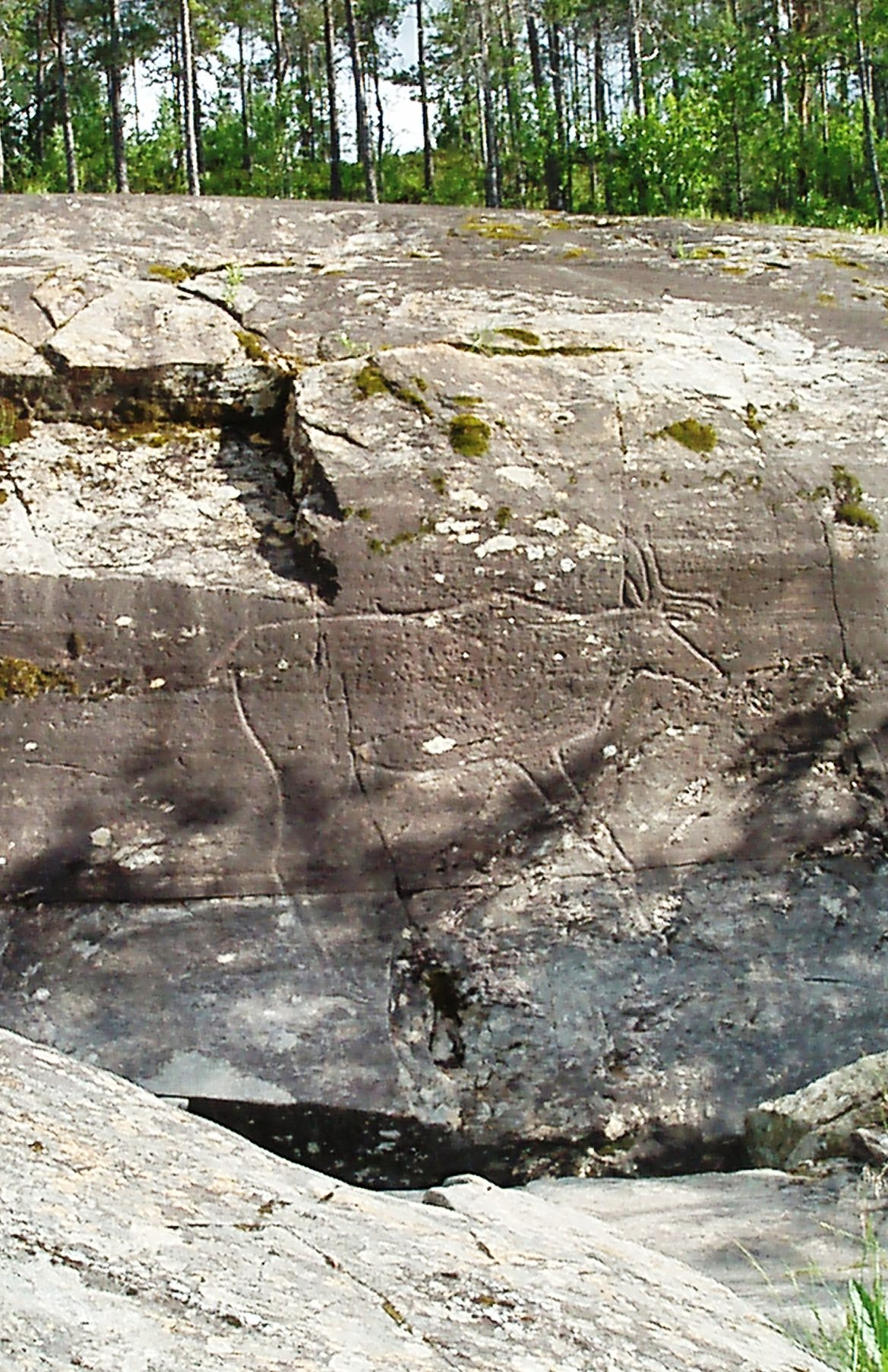 Rock carving of reindeer (rangifer tarandus) as the major feature of the Bølareinen (Bøla reindeer) rock carvings site in Steinkjer, Norway